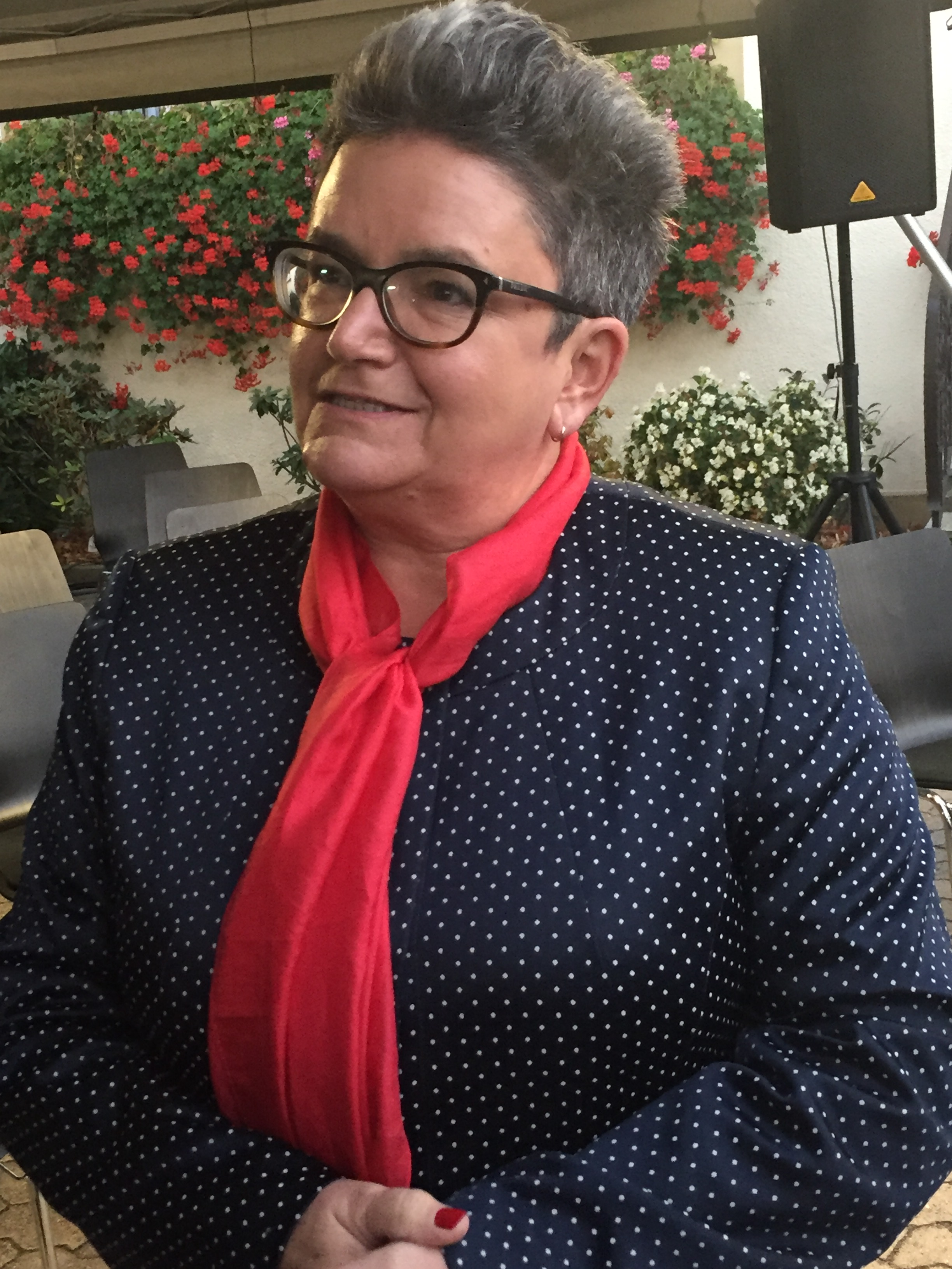 Petra Becker